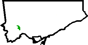 Locator map of Lambton Baby Point in Toronto, Ontario, Canada. Based off locator maps created by user Alaney2k.